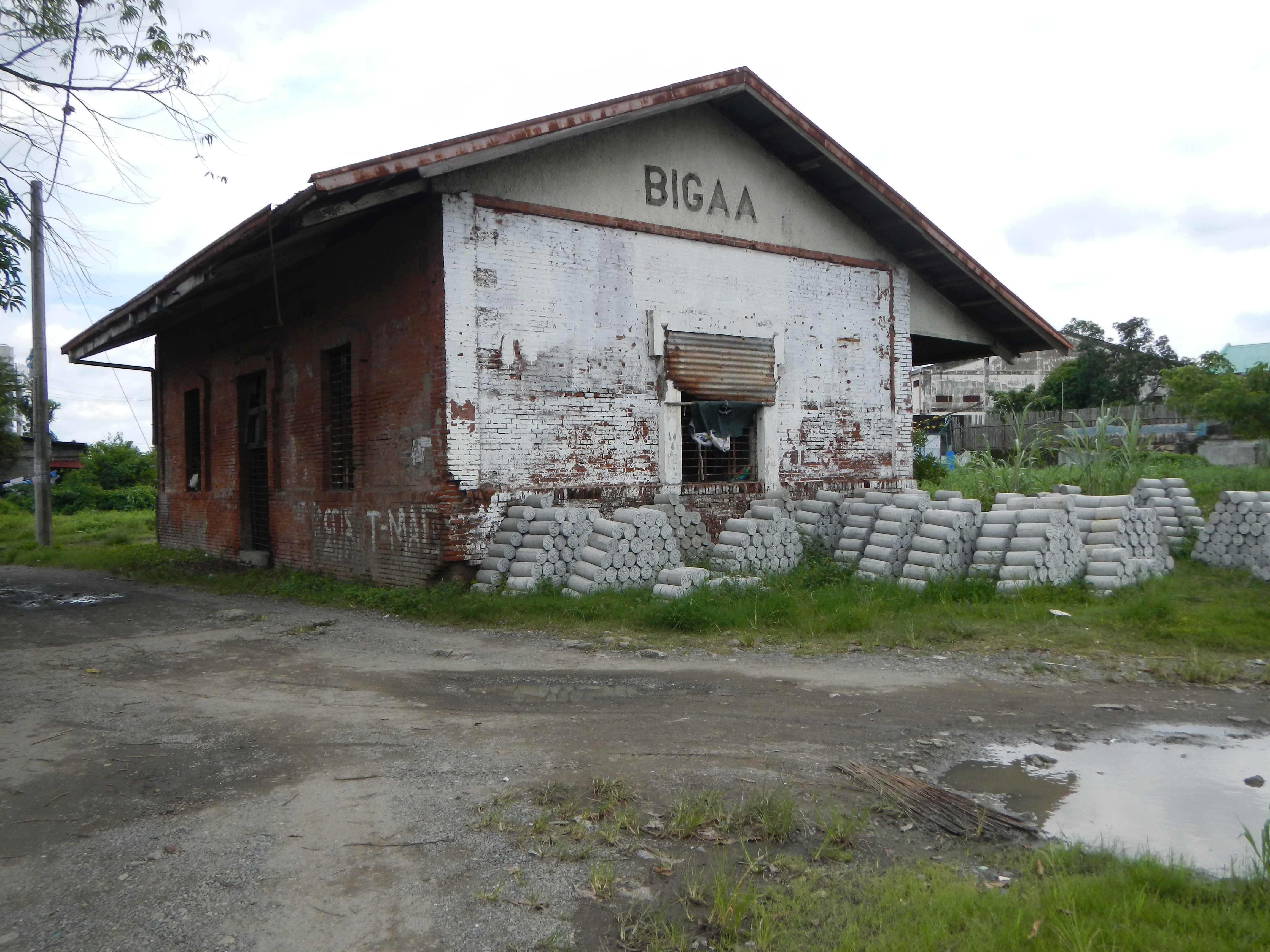 Balagtas railway station (List of Philippine National Railways stations Bulacan Balagtas railway station and historic site of the PNR rail transport (Burol 1, Balagtas, Bulacan) Balagtas Resort (Burol 1, Balagtas, Bulacan) Improvement of Balagtas-Pandi Road (Burol 1 and Burol 2, Balagtas, Bulacan Provincial Road) Barangay Burol 1 and 2, 14°49'32"N 120°53'56"E Balagtas, Bulacan, Bulacan province towards MacArthur Highway or Manila North Road MacArthur Highway (Poblacion, Wawa and Burol 1, Balagtas, Bulacan business center) (Note: Judge Florentino Floro, the owner, to repeat, Donor Florentino Floro of all these photos hereby donate gratuitously, freely and unconditionally all these photos to and for Wikimedia Commons, exclusively, for public use of the public domain, and again without any condition whatsoever).